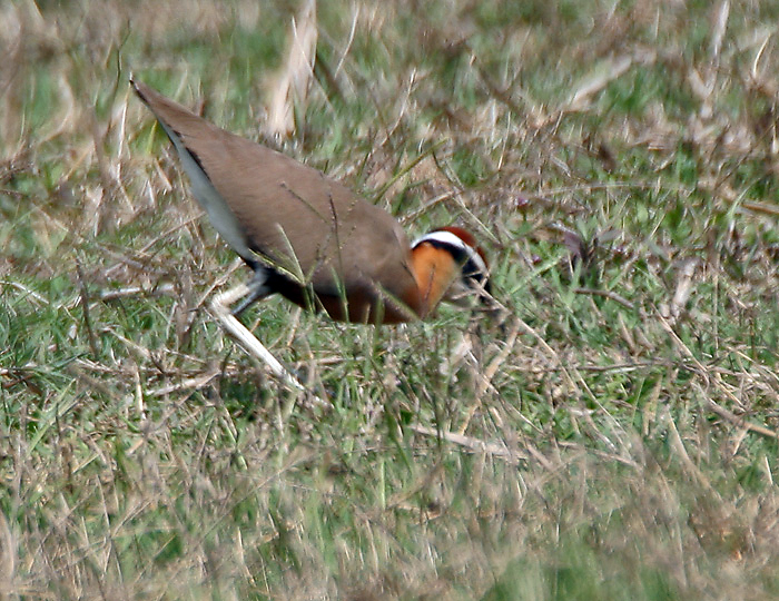 Indian Courser (Cursorius coromandelicus) at Keoladeo National Park, Bharatpur, Rajasthan, India.